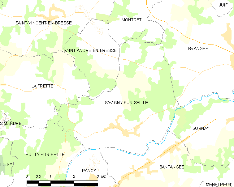 Map of French municipality